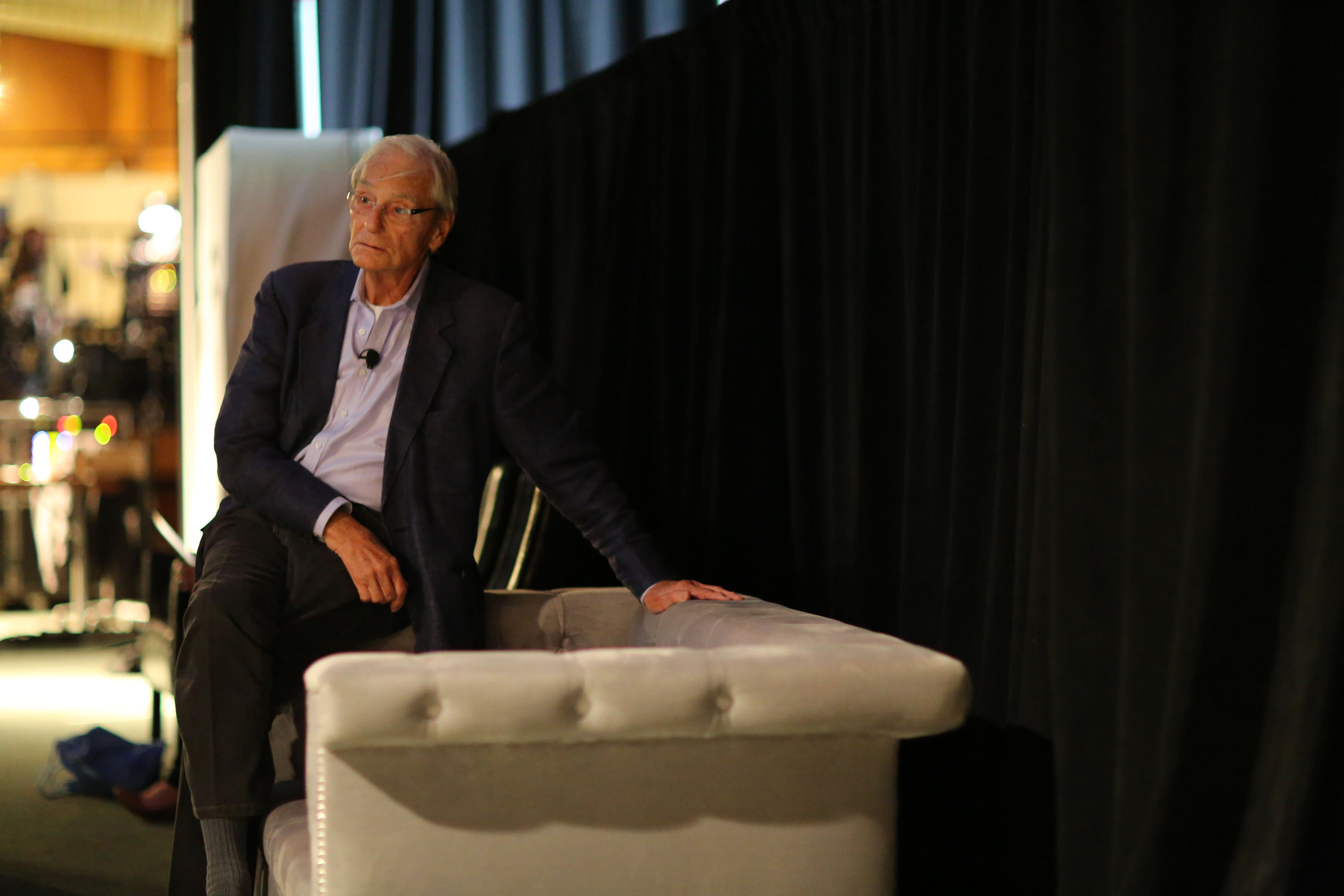 Techcrunch Disrupt SF 2013. Photo by Max Morse for Techrunch.